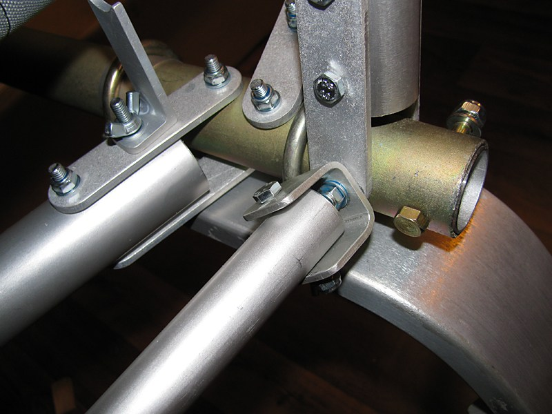 Skyranger construction - Tube connections with bolts and nuts